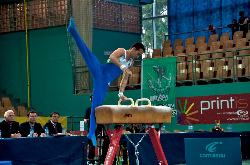 43. Šalamunov memorial in Maribor